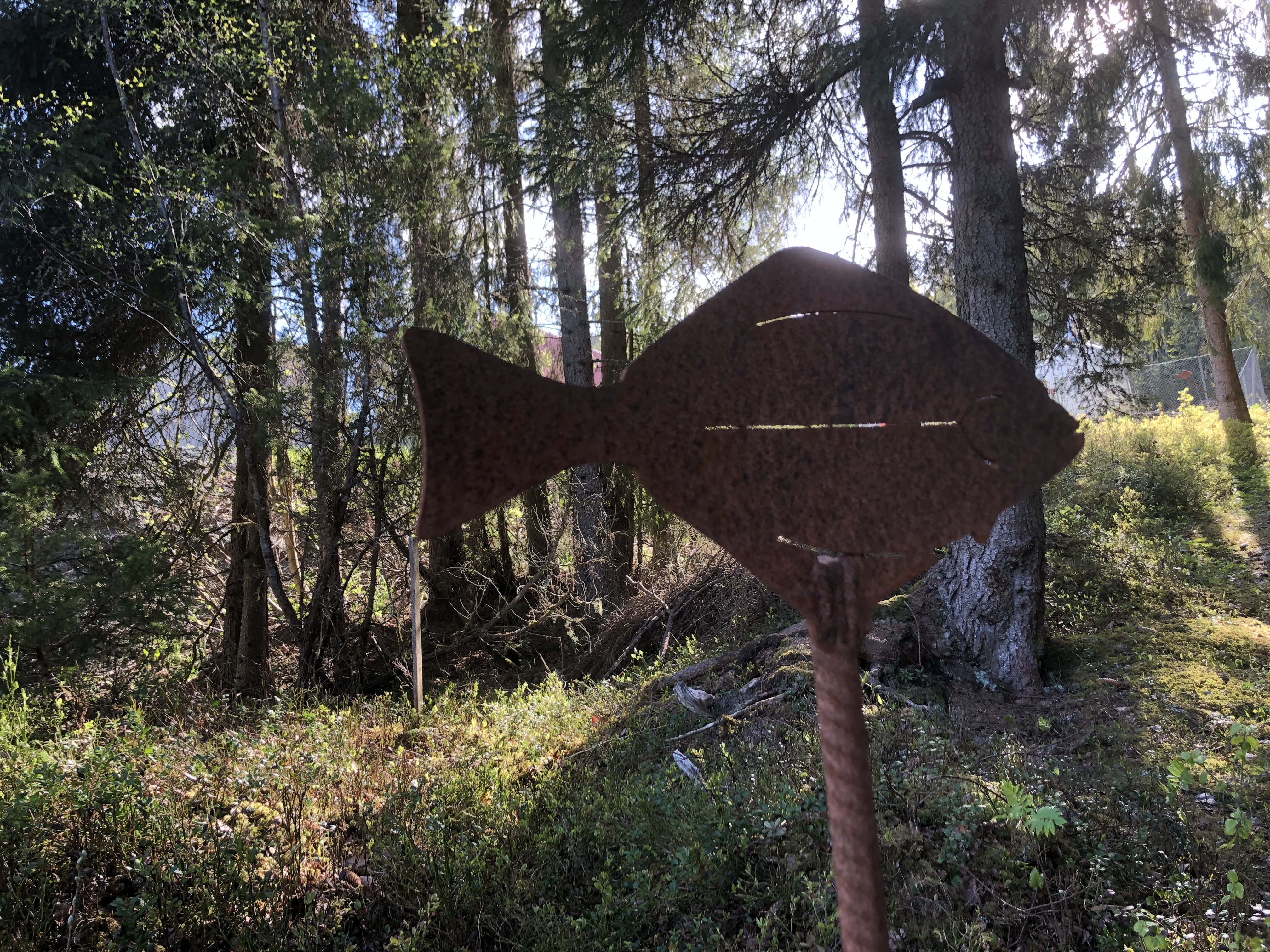 At the road to Kvennavika Rock Carvings